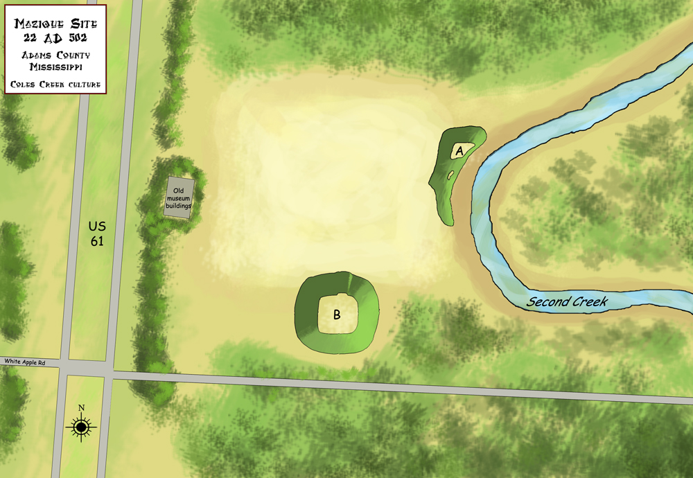 A diagram showing the placement of mounds at the Mazique Archeological Site (22 AD 502), a Coles Creek culture site in Adams County, Mississippi that was also once the site of the White Apple village of the Natchez peoples during early colonial times.